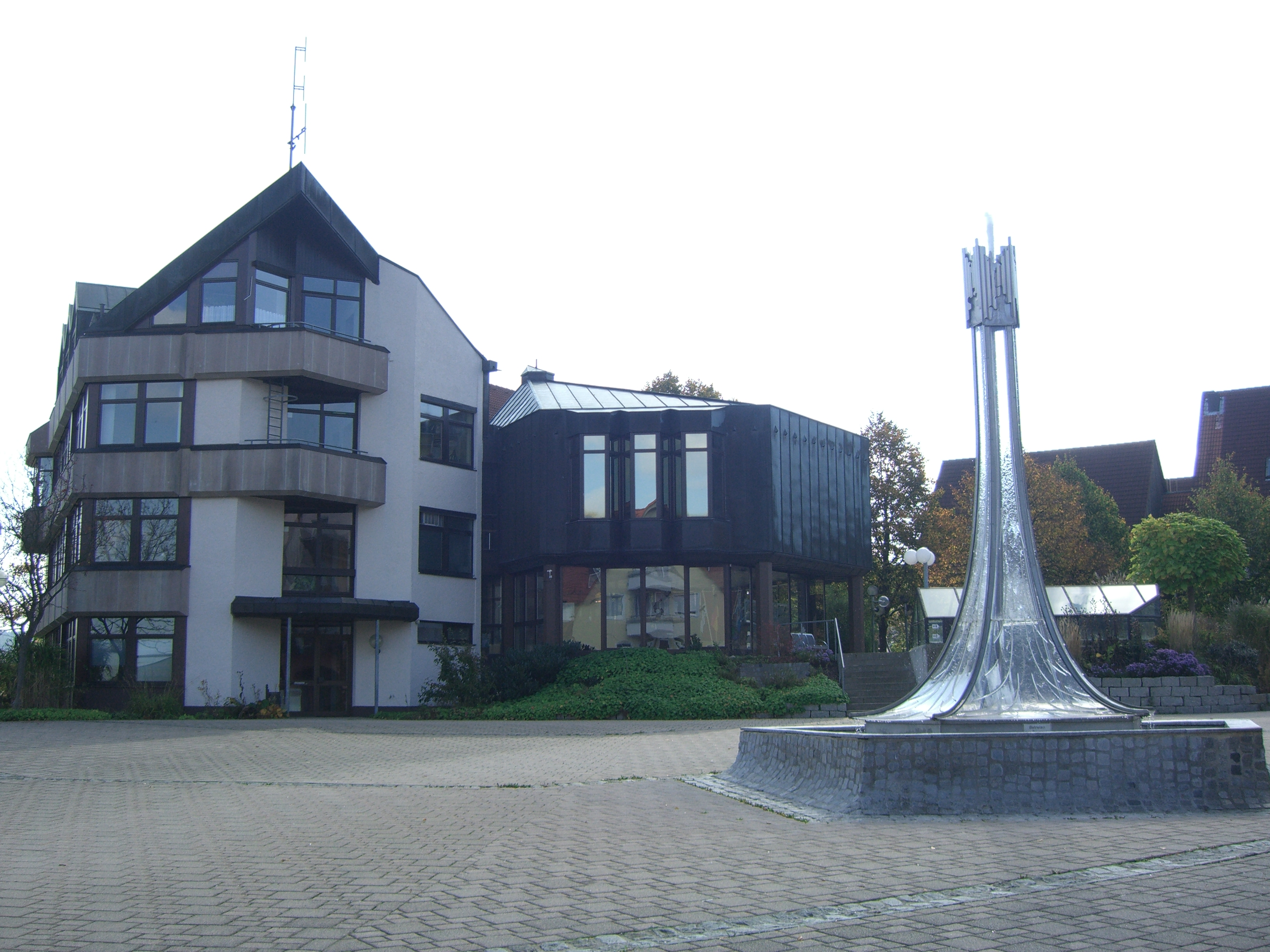 The town hall place and backside of the town hall in Eschenau, municipality of Eckental, in Bavaria, Germany.